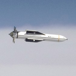 A B-52 releases a test version of the Massive Ordnance Penetrator (MOP) during a test of the weapon over White Sands Missile Range, N.M. in 2009. (DoD photo)